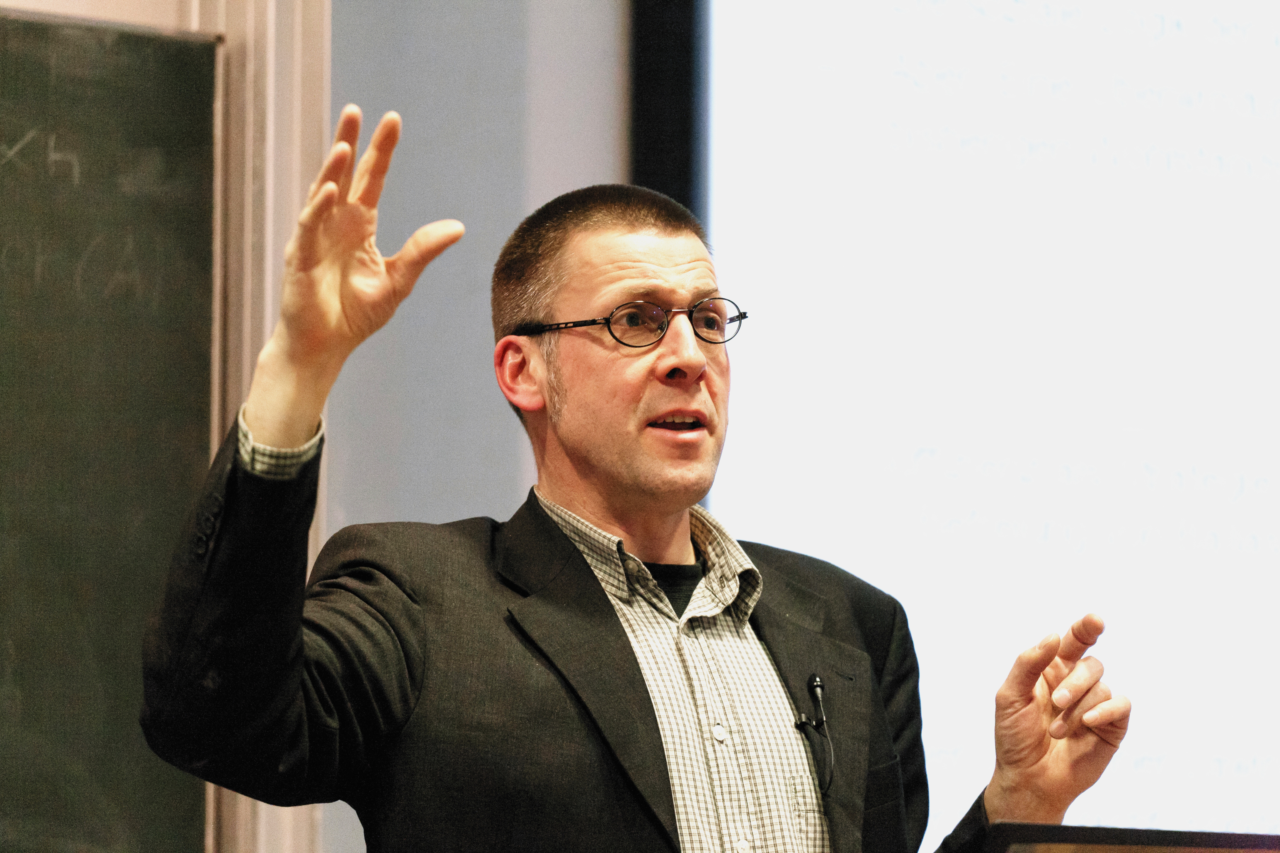 Niko Paech in 2011.